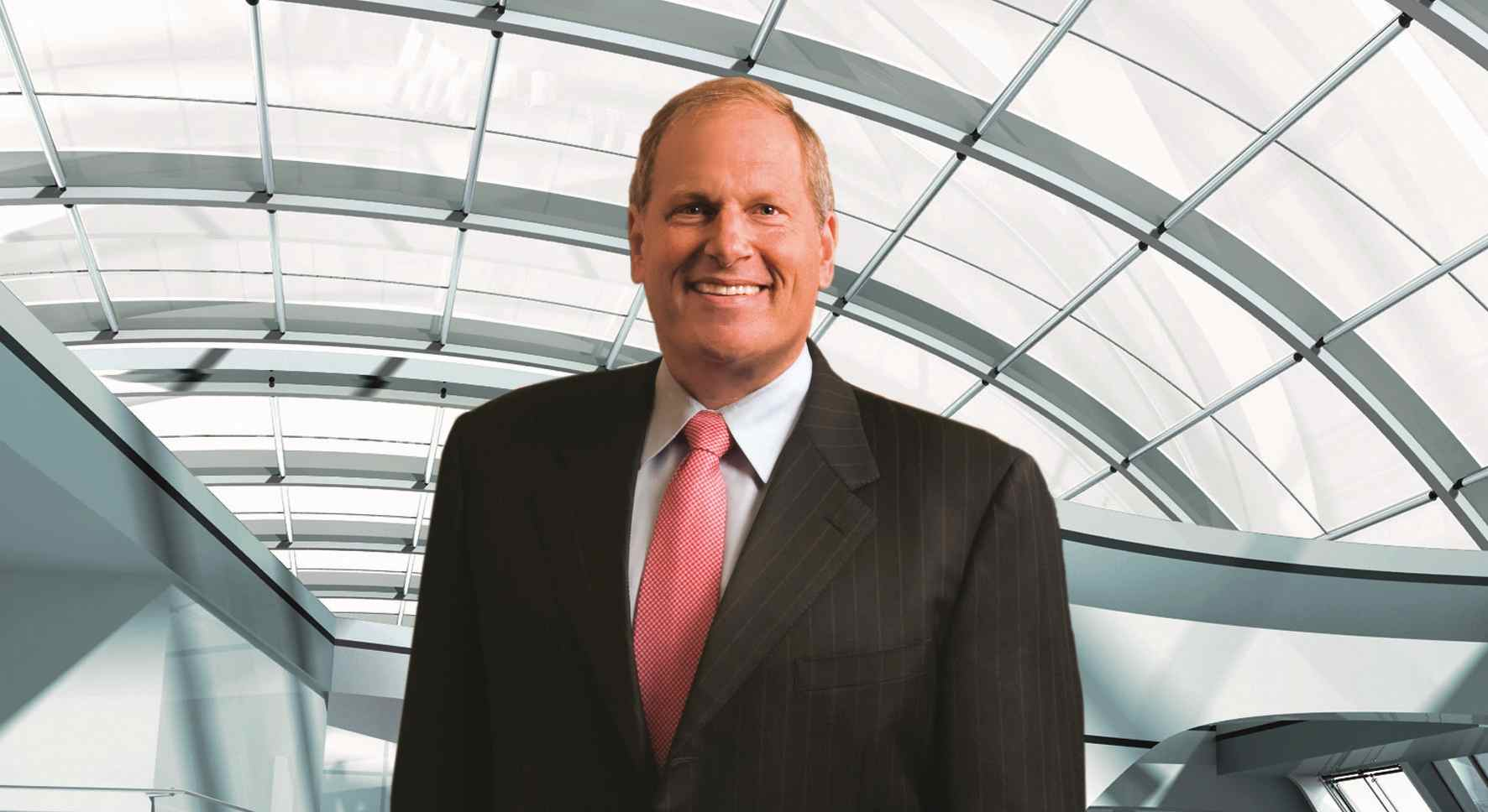 Executive photo of Honeywell Chairman and CEO David M. Cote